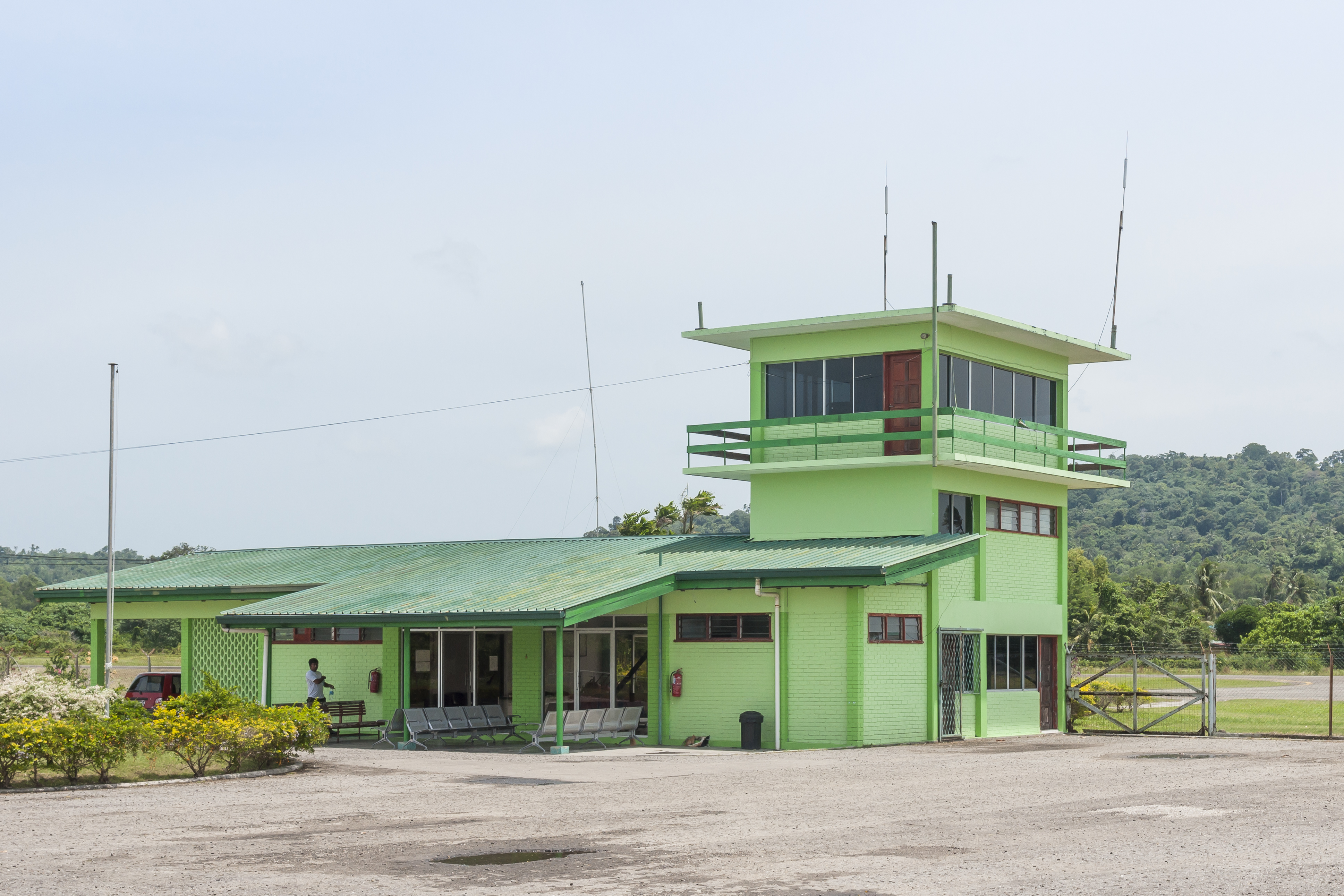 Kudat, Sabah: Airport Kudat (Lapangan Terbang Kudat)